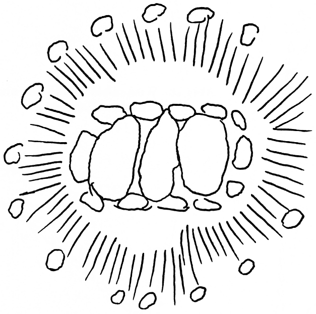 Megalithic Tomb Zeitlow (Sprockhoff-No. 570)